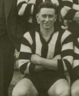 Photo of Tom Wallis from 1944-1945